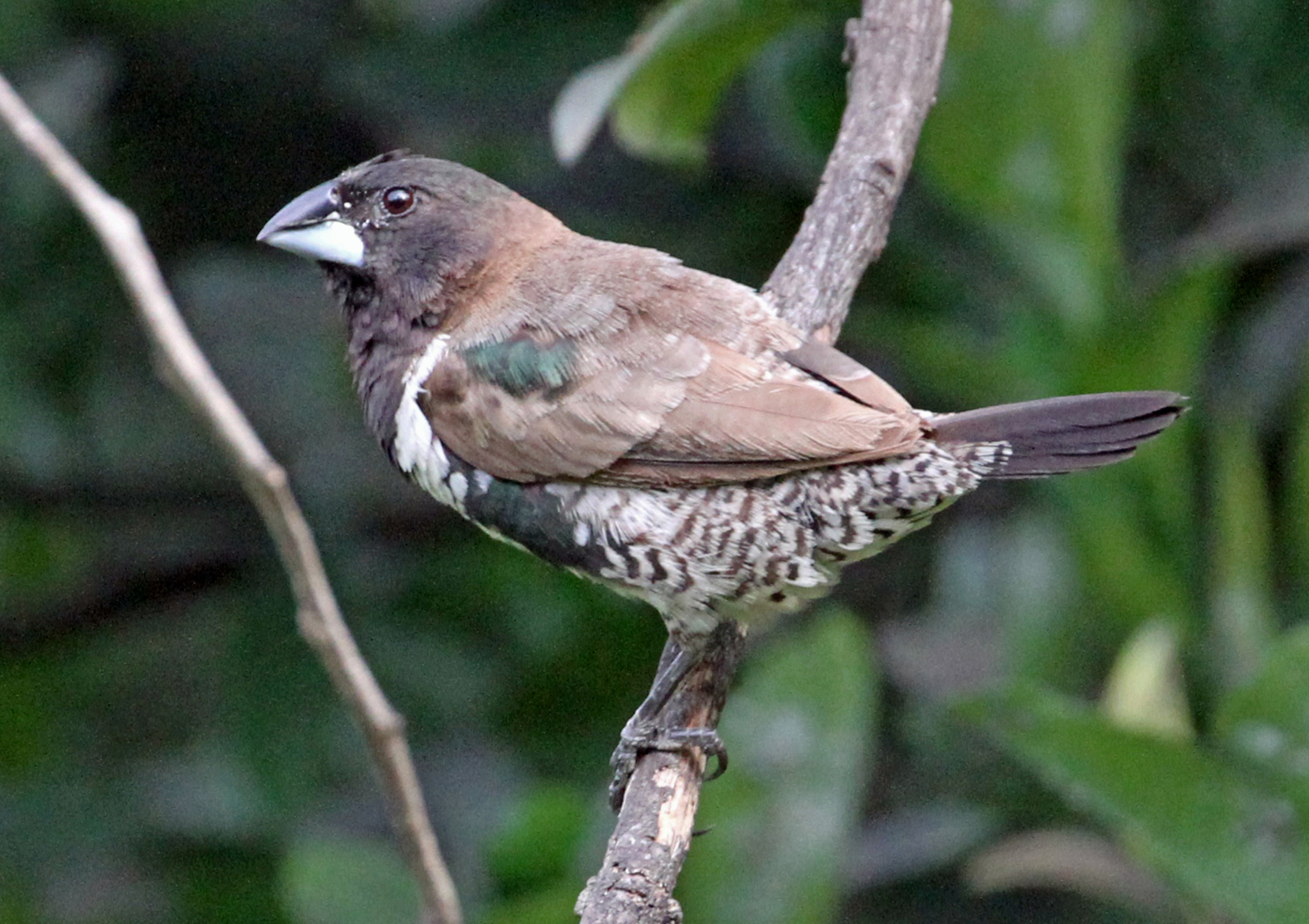 Bronze mannikin photographed in the Gambia, in November 2012